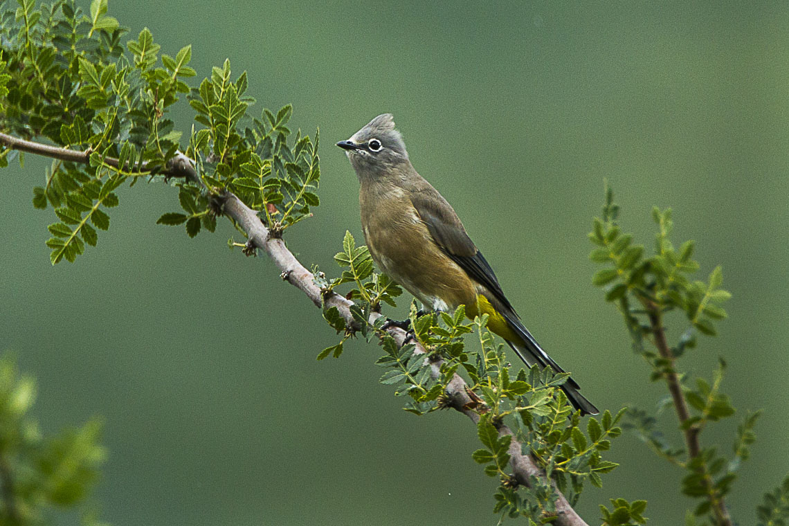 Gray Silky-Flycatcher - Mexico_S4E9223